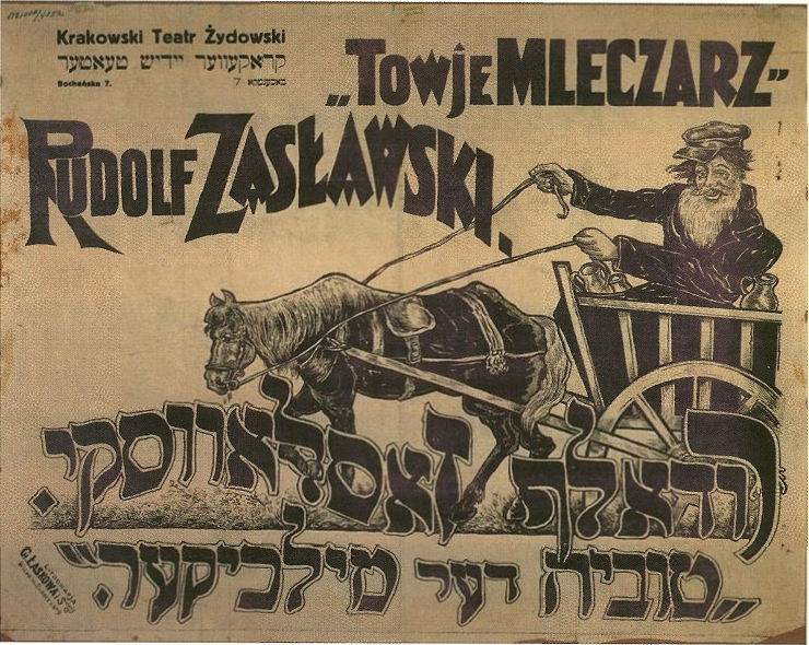 "Tevye der milkhiker" Yiddish poster in Vilna.